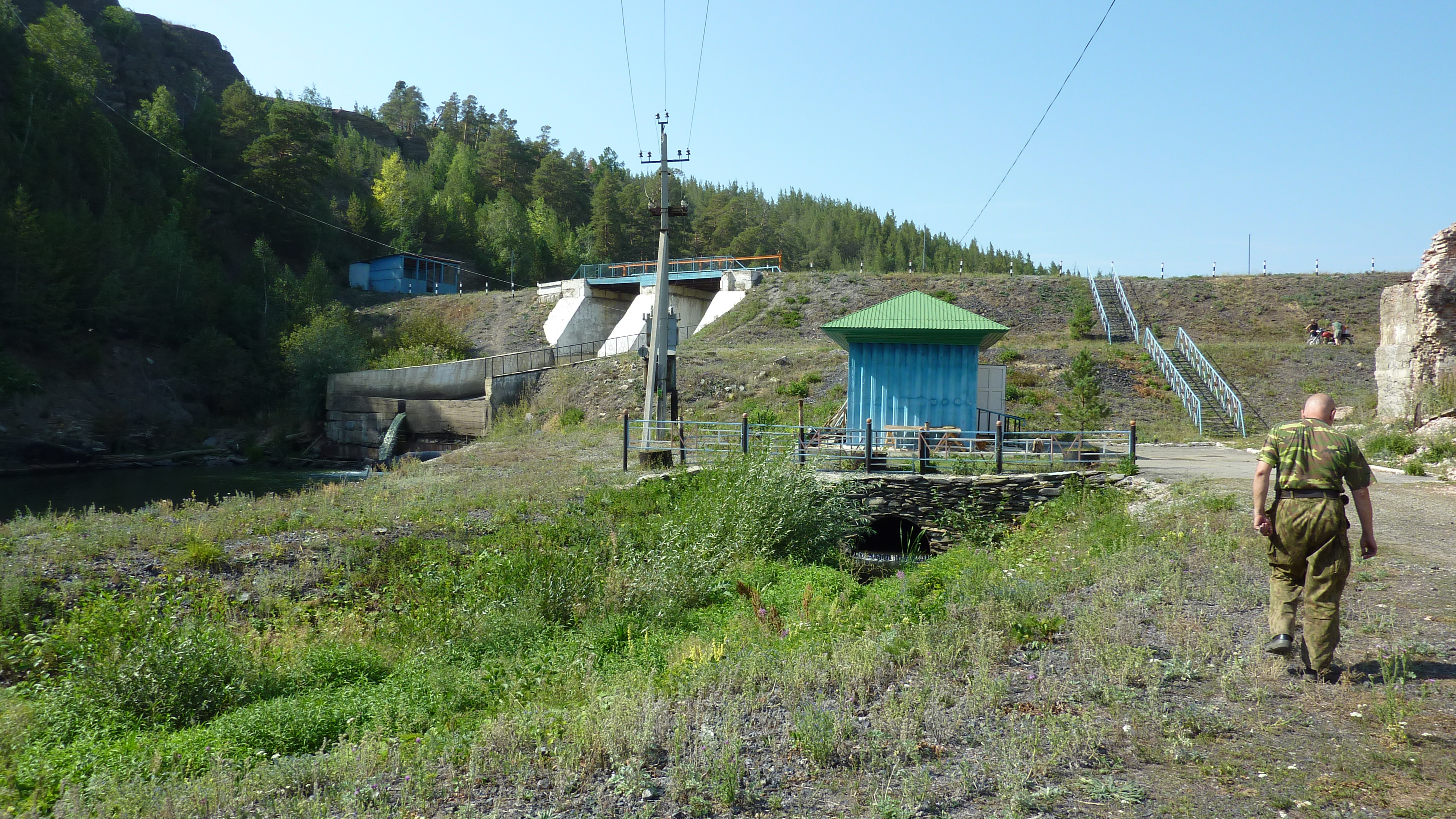 The dam of the Zilairs pond.